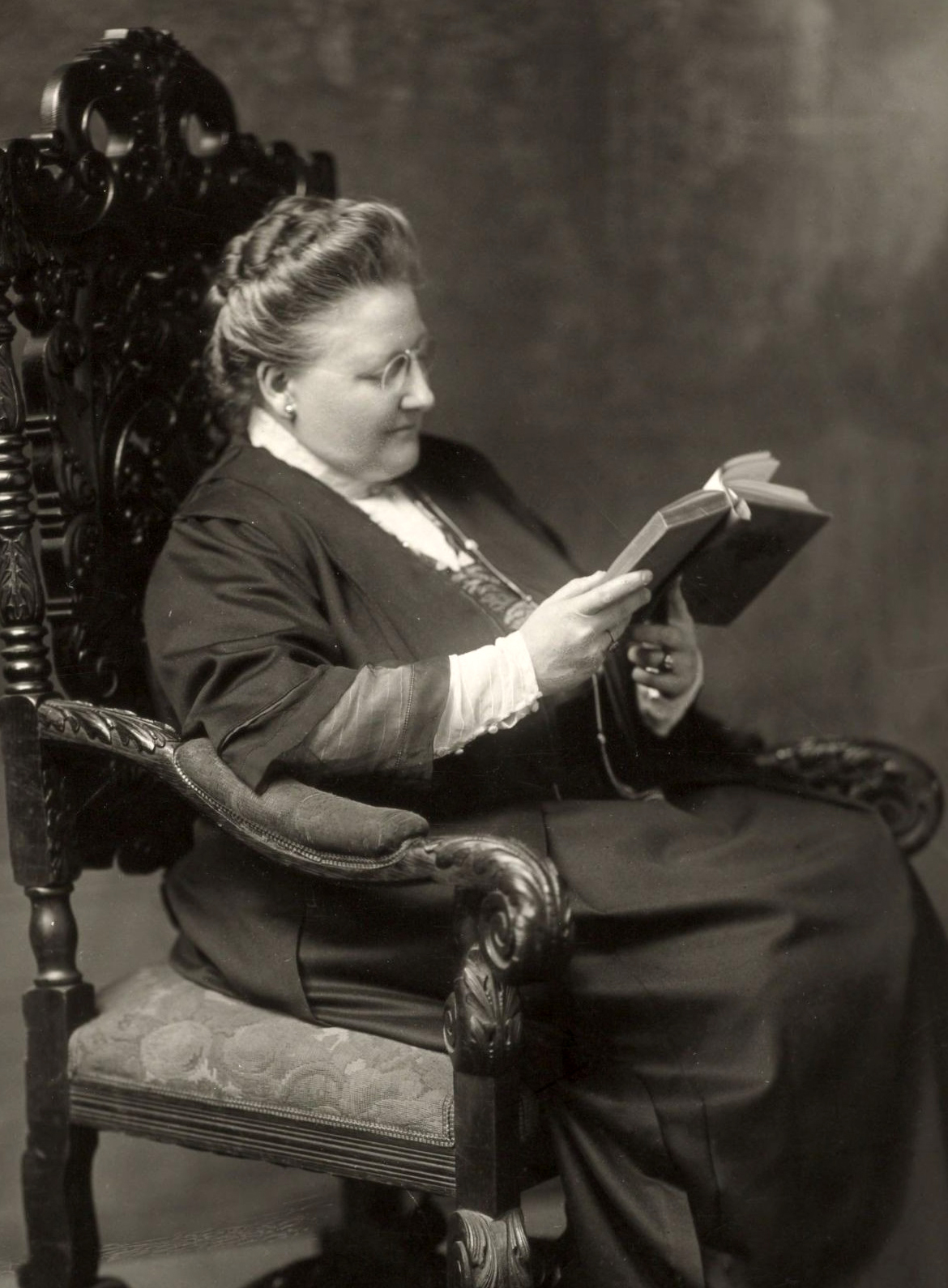 Photograph of Amy Lowell (1874-1925) posing with a book, photographed by Marceau (d. 1924). Cropped version. MS Lowell 62 (3), Houghton Library, Harvard University